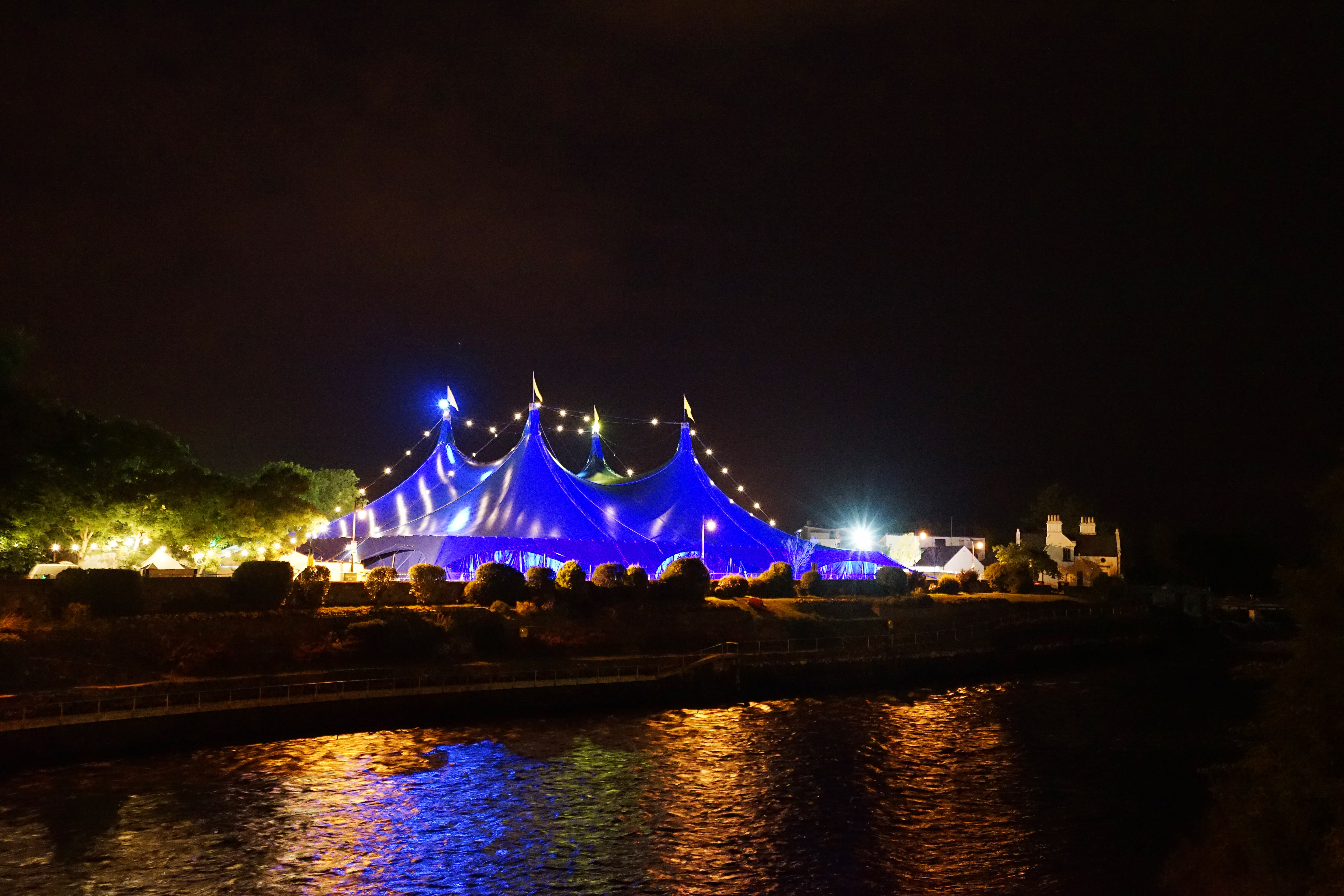 Galway International Arts Festival Big Top